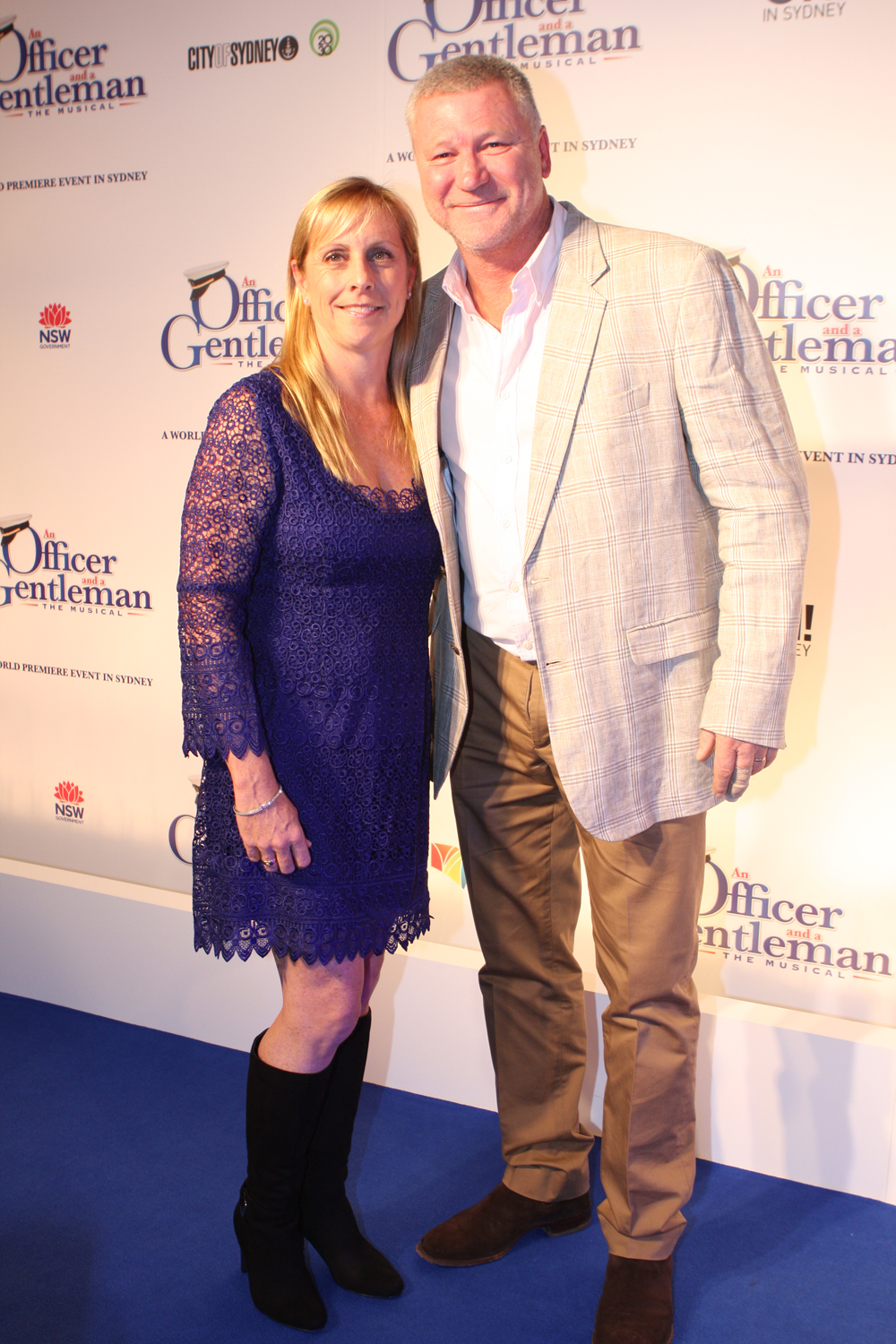 Ann Cam with Scott Cam at the premiere of An Officer and a Gentleman, The Musical at the Lyric Theatre in Sydney, May 2012.